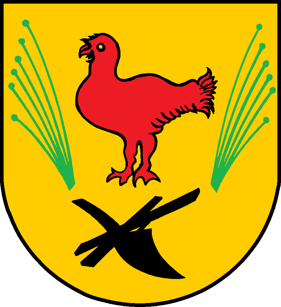 Coat of arms of the municipality Besenthal in Schleswig-Holstein, Germany.